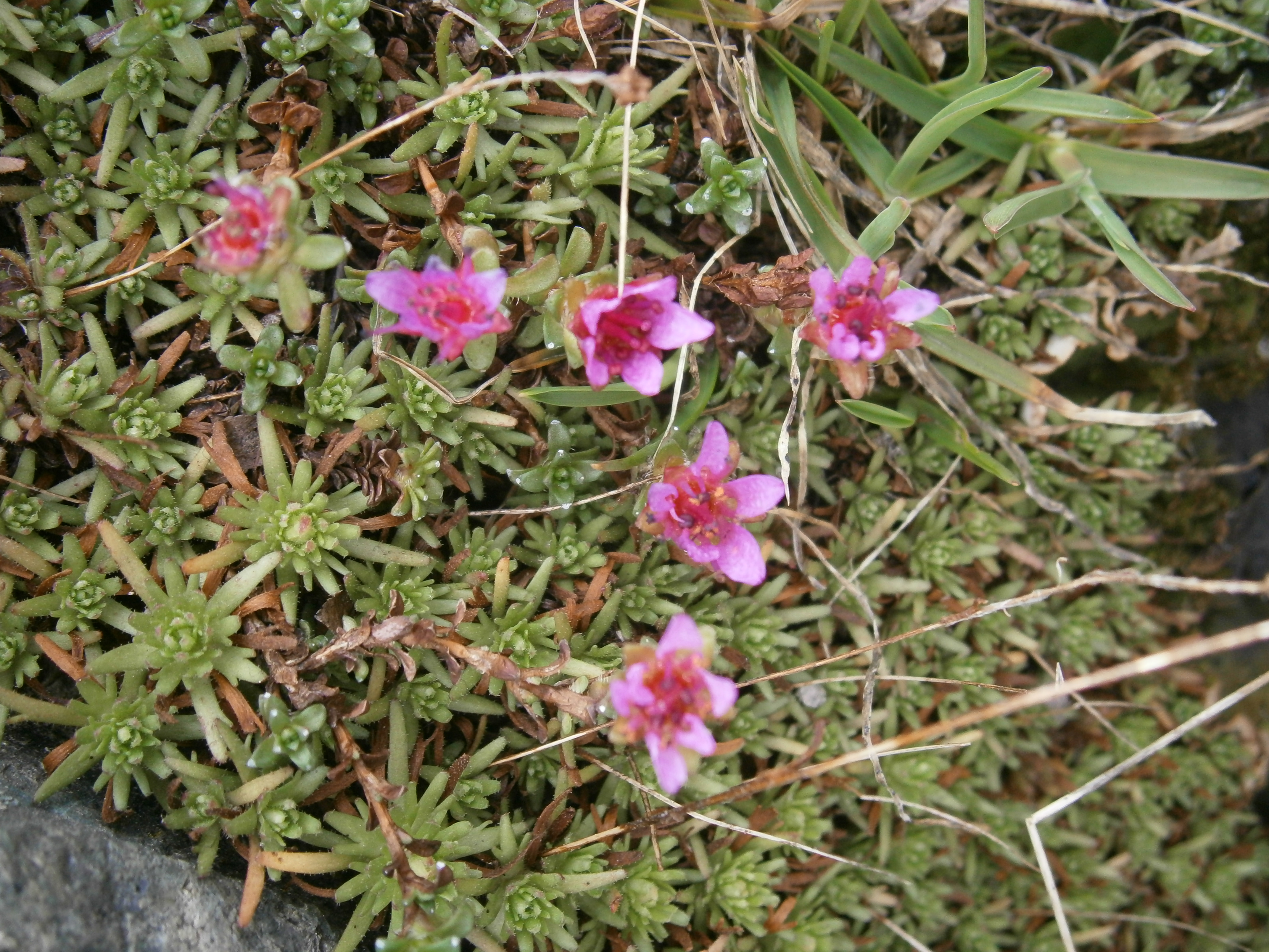 Saxifraga retusa subsp. angustana in the Queyras